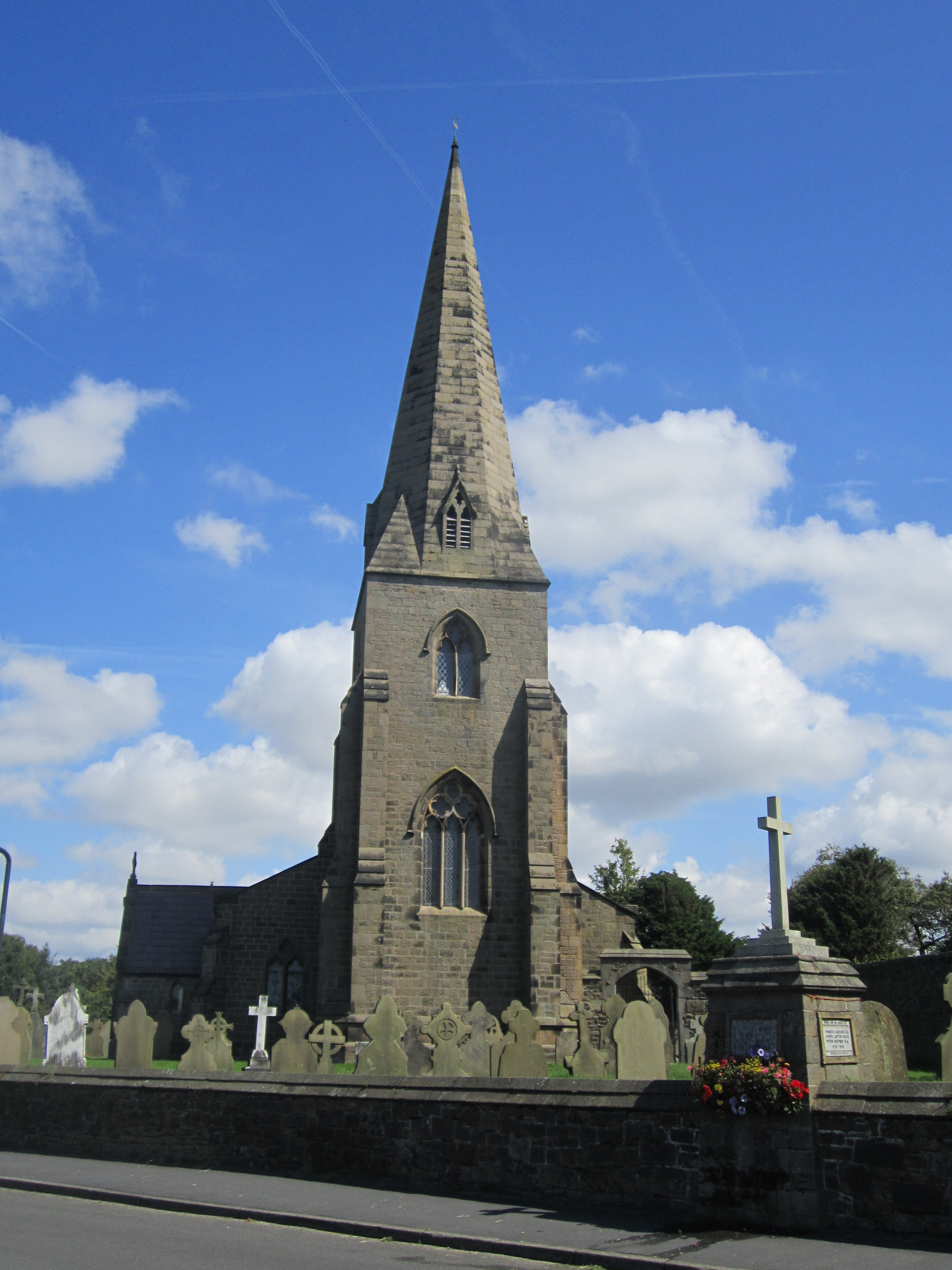 Photo taken at Little Crosby, Merseyside, England.